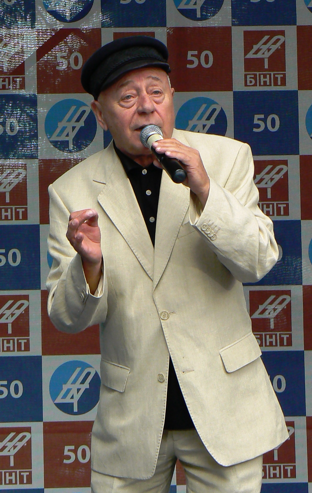 Bulgarian actor, singer and showman, Todor Kolev during the concert for the 50th anniversary of the Bulgarian National Television on "San Stefano" Street, Sofia.